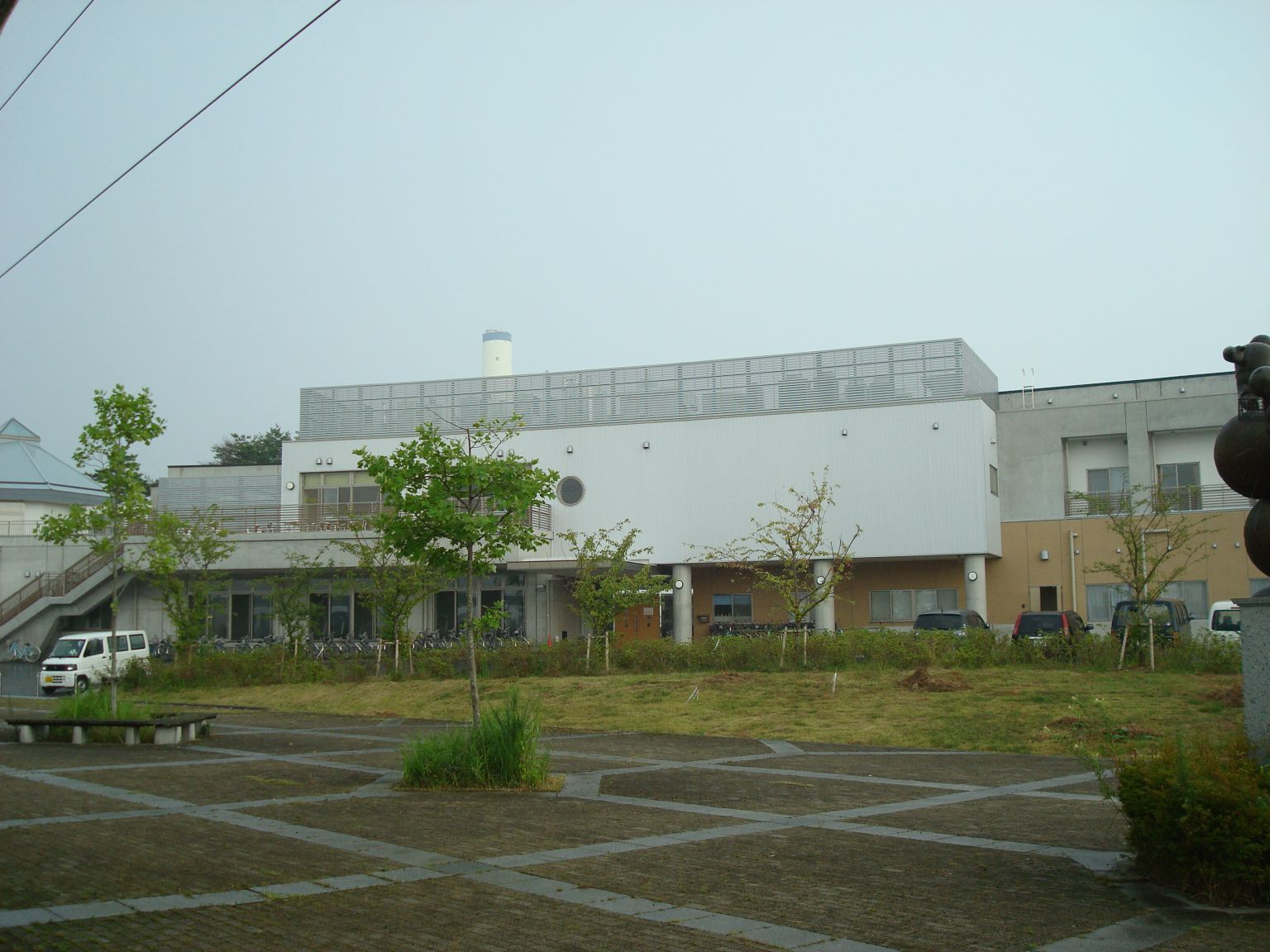 Boys dormitory "Hiiragi" (holly tree) of JFA academy Fukushima, the boarding school for football youngsters placed in J-Village.